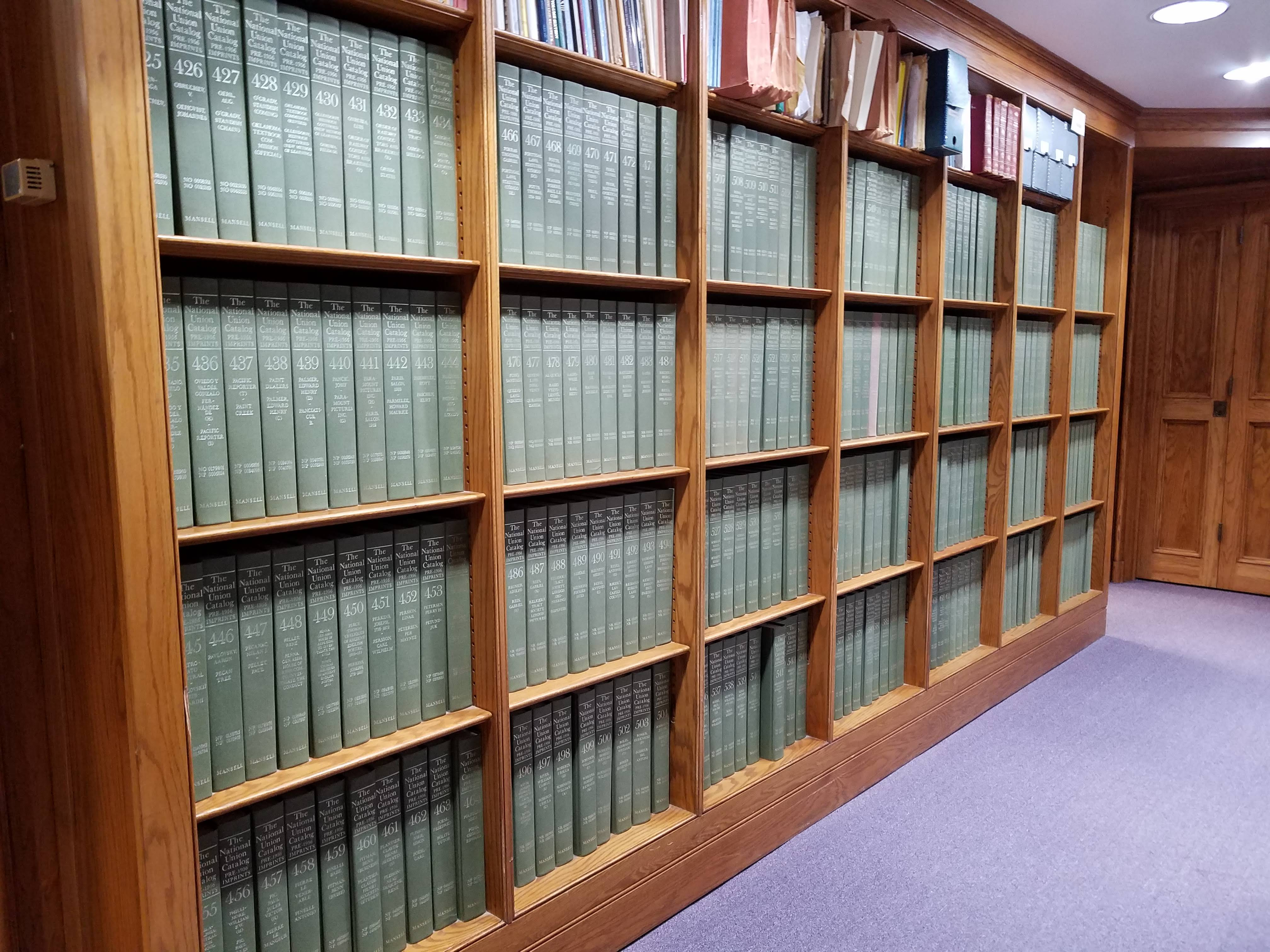 Bookshelves holding approximately one third of the volumes of the National Union Catalog at the Folger Shakespeare Library, Washington, DC, USA (the remaining 2/3 are off camera)